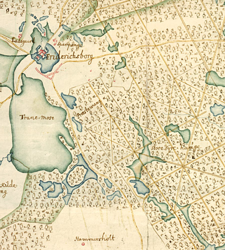 Map from about 1700 showing Store Dyrehave in North Zealand, Denmark